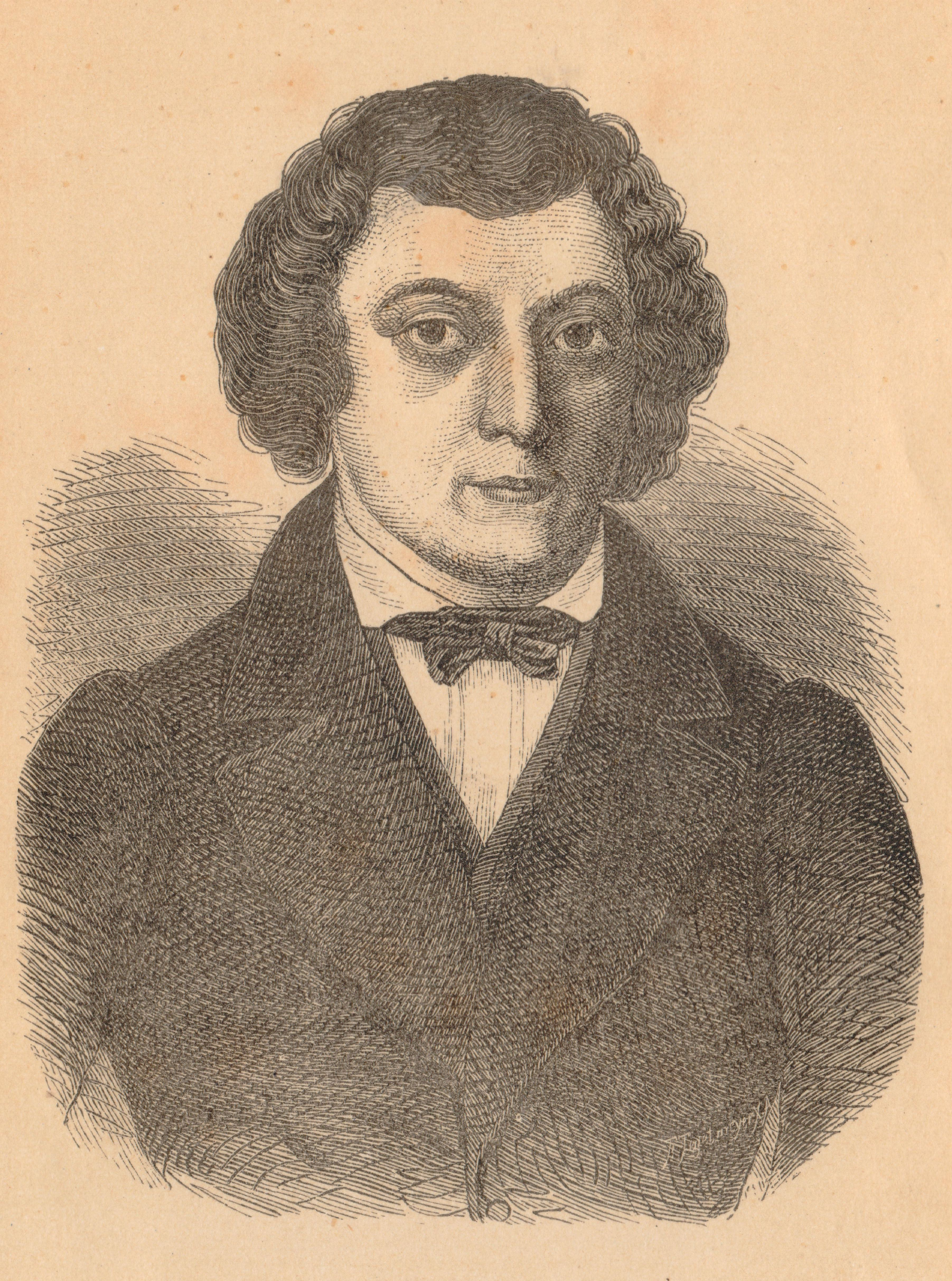 Josef Feldkircher (also: Joseph) was born on March 3 1812 in Andelsbuch, Vorarlberg, Austria; died on 2nd September 1851 in Bamberg, Germany. He was an Austrian Roman Catholic priest and writer.